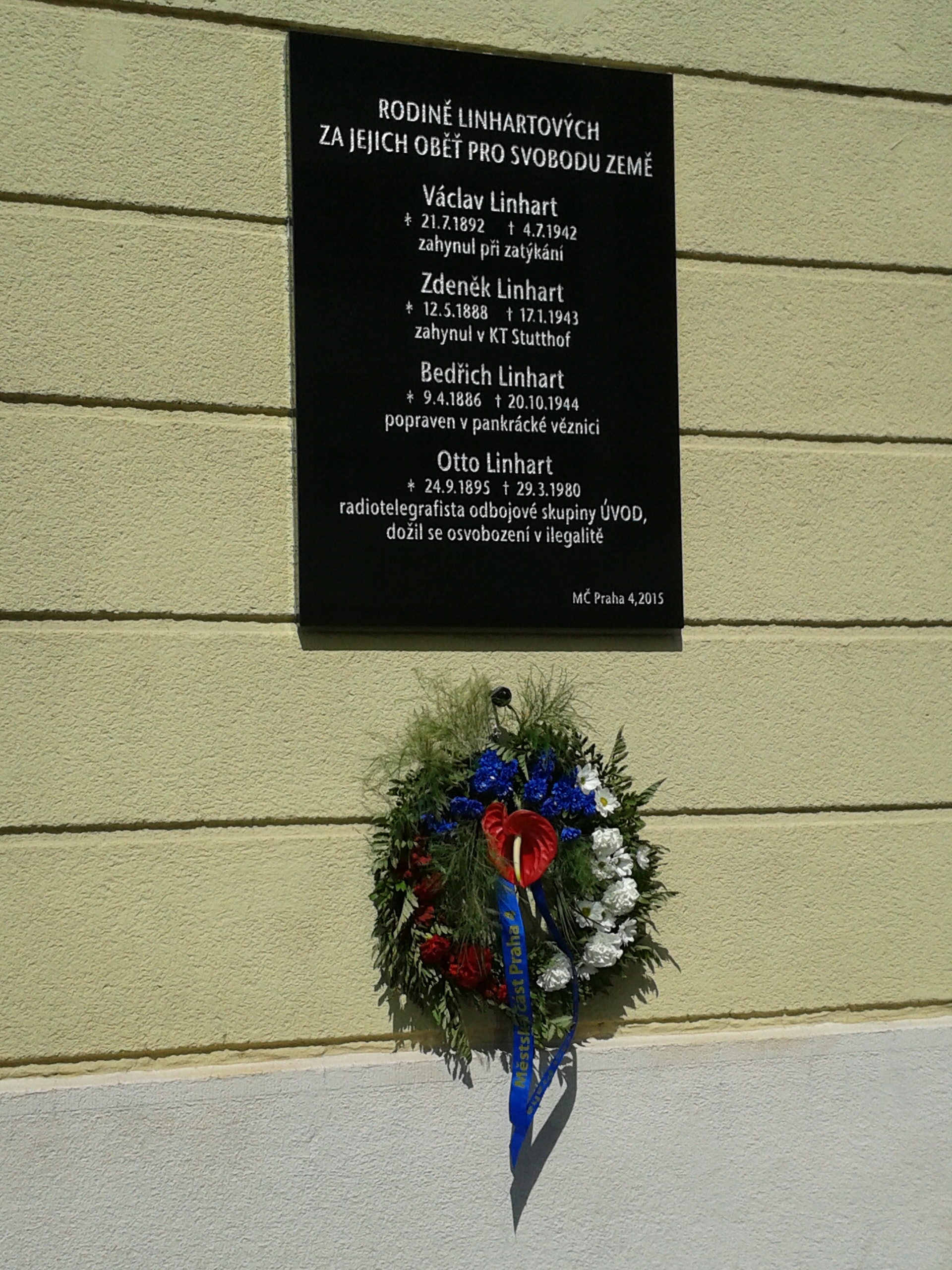 Commemorative plaque in honor of four brothers from a family Linharts who gave their lives for freedom in the Czechoslovak country during the period of Protectorate.